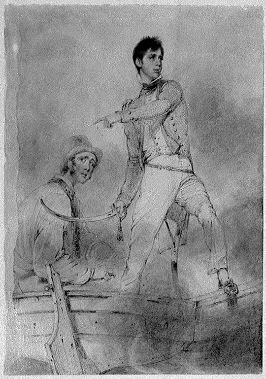 Captain Fleetwood Pellew commanding H.M. Ship Terpsichore against Dutch vessels in Batavia Roads 24 Nov. 1806. Drawn at Madras, May 1807